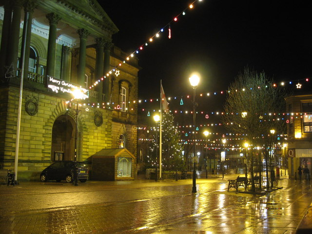 Accrington Town Hall at night. Taken just before Christmas 2007 the building on the left is Accrington Town Hall. 410717